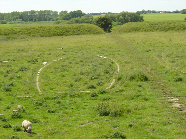 Viking foundations in Trelleborg museum, Denmark.